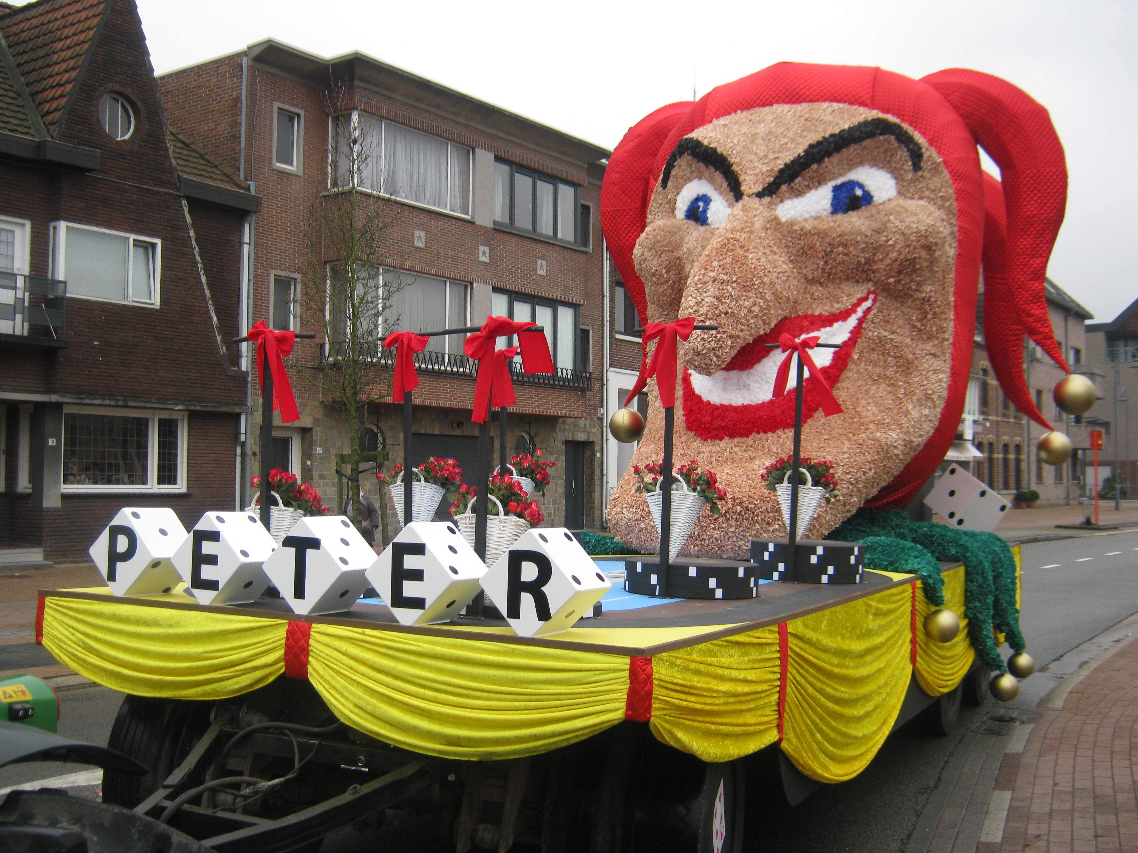 Wagon of the prince carnival in Maaseik 2013, a giant Joker